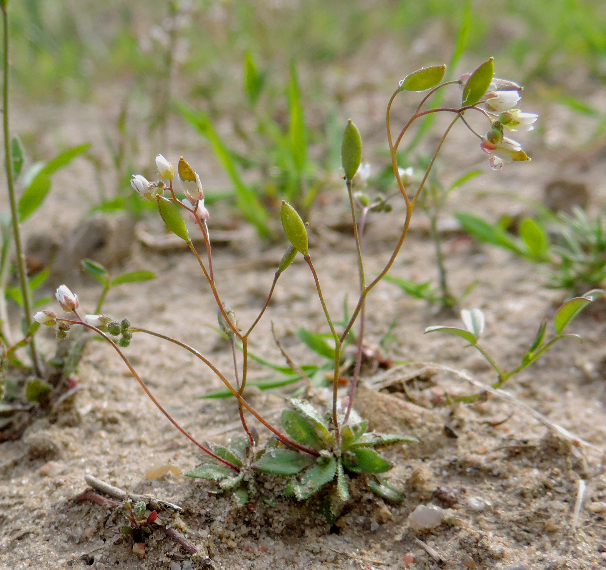 Erophila verna. Fields near Luzino (N Poland)